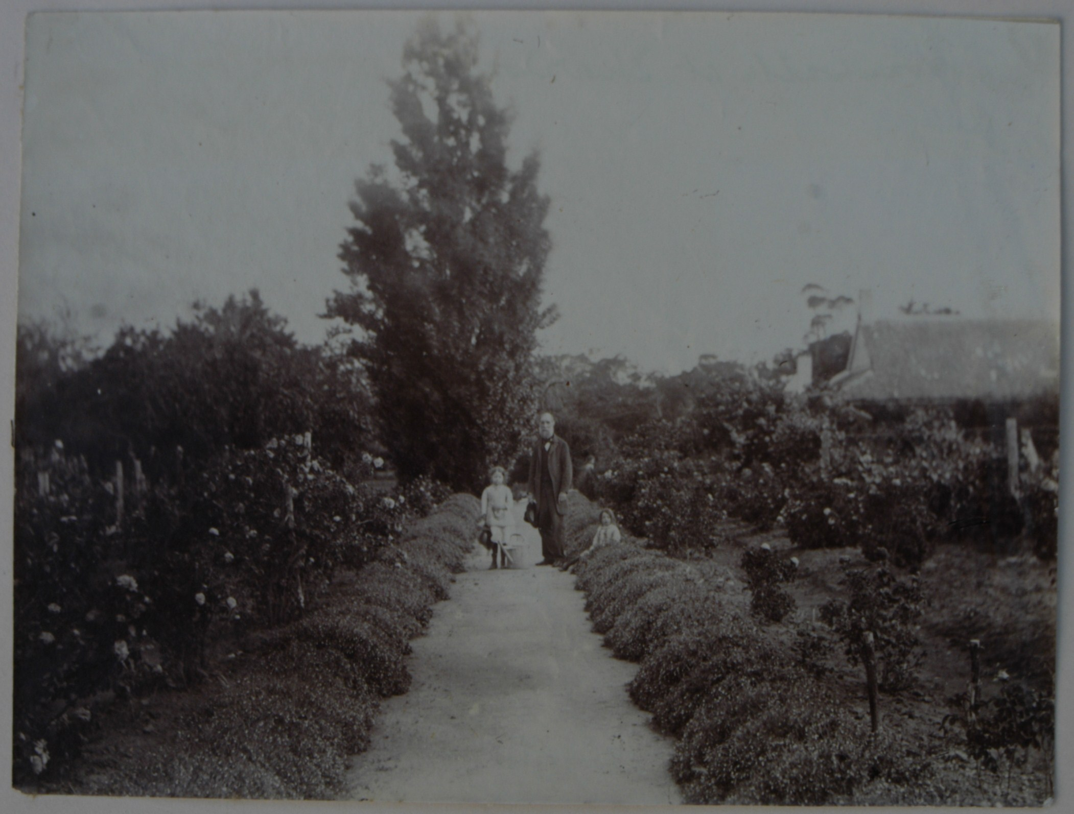 My photo (R. de SalisRodolph (talk) 11:12, 13 August 2013 (UTC)) of a photo of Leopold Fane De Salis (1816-1898) in an Australian garden, possibly Lambrigg, circa 1890.